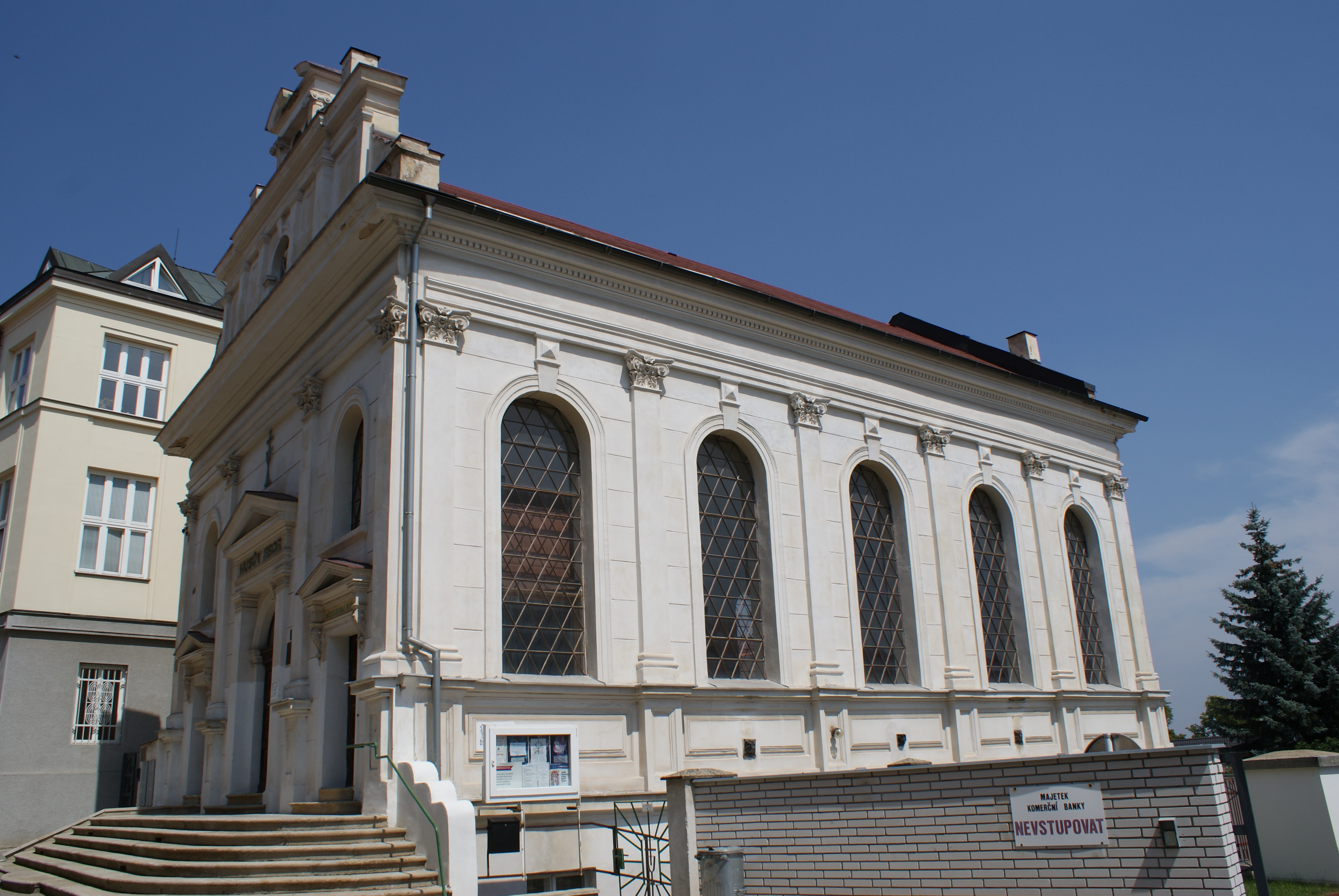 Kladno a town in Central Bohemian region, Czech Republic, former synagogue.